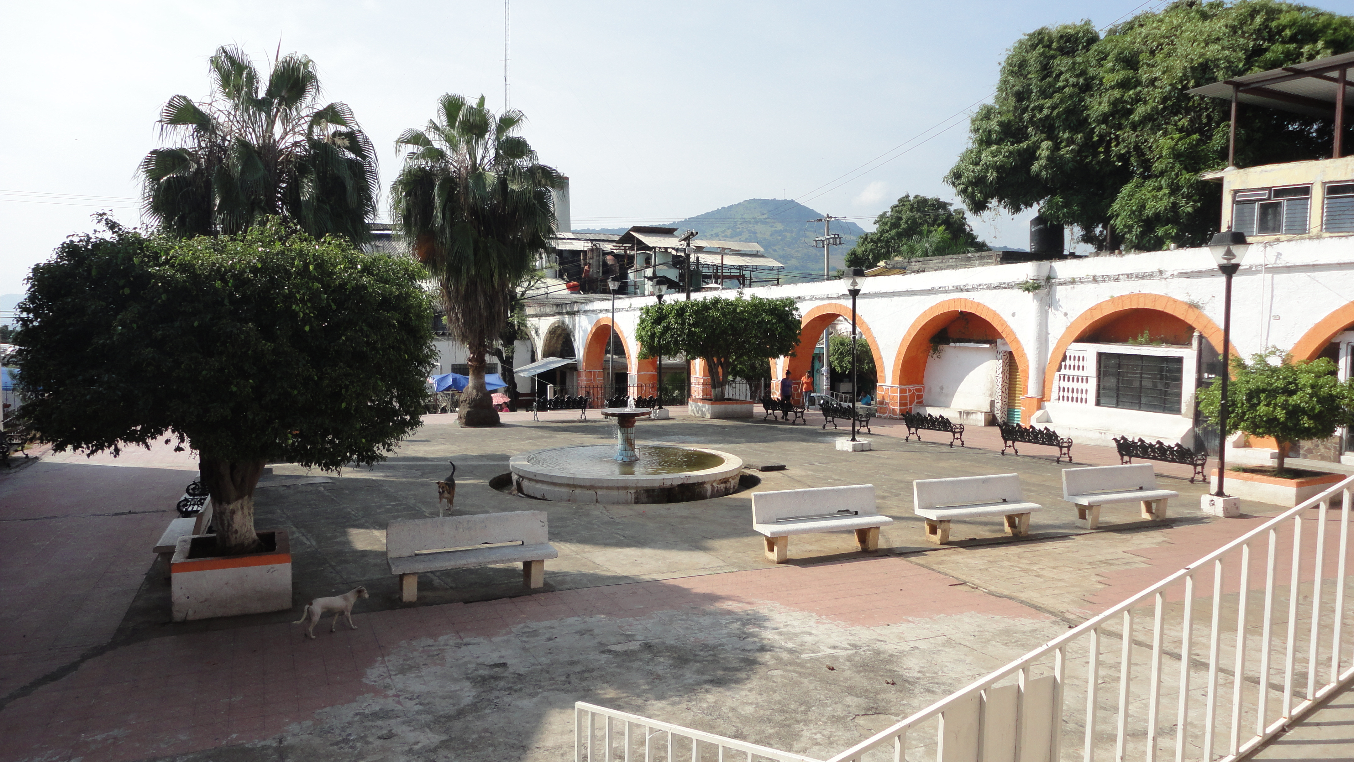 Plaza acueducto